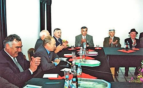 DUGULUBGEI, KABARDINO-BALKARIA. President Vladimir Putin with the elders in a mountain village.